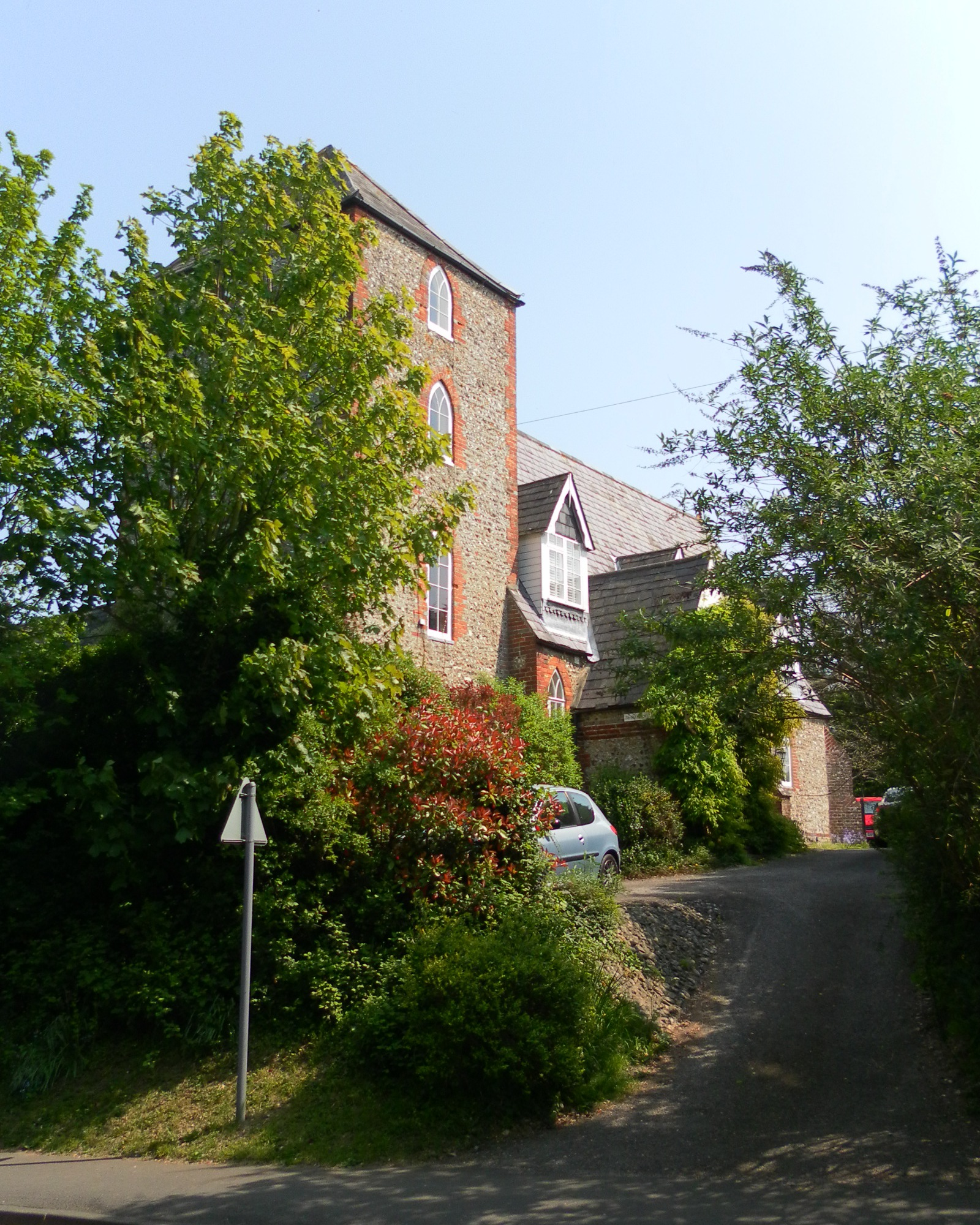 Former Church of Christ Baptist Chapel, Station Road, Angmering, Arun District, West Sussex, England. Built in 1846 and used by Baptists until the late 1960s, after which it was converted into a house. Listed at Grade II by English Heritage (NHLE Code 1027686)]